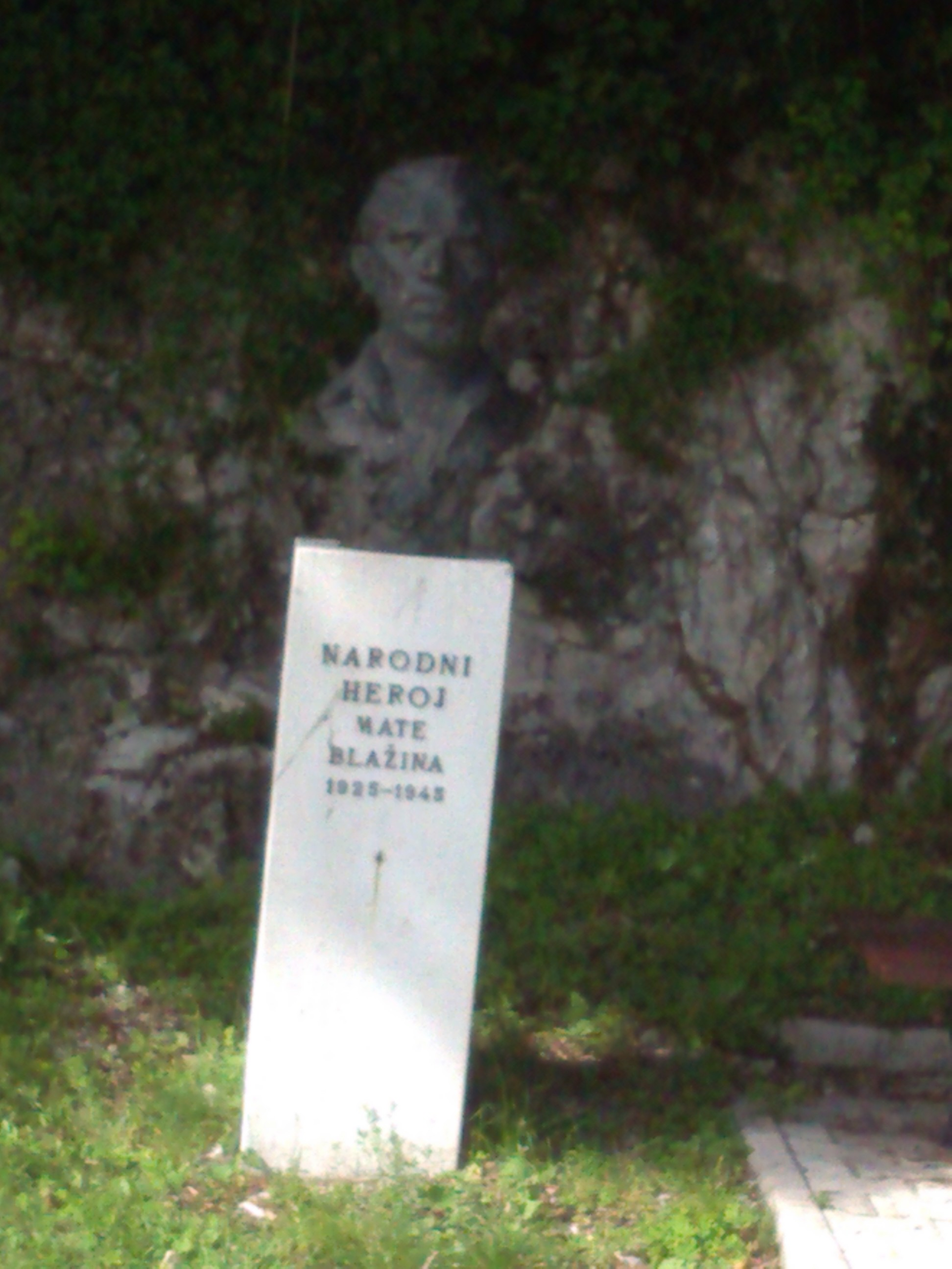 Monument in Labin